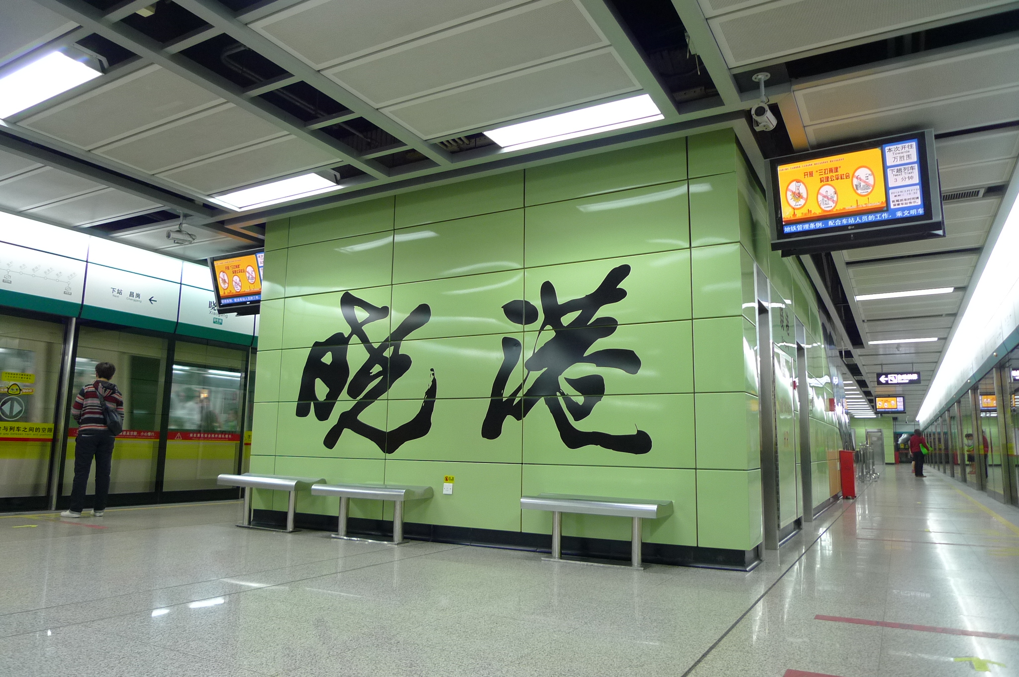 Xiaogang Station In 2012